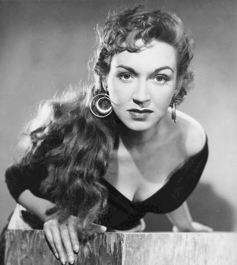 Photo of vocalist Rise Stevens. There are no copyright marks on the item, which can be seen at the link.